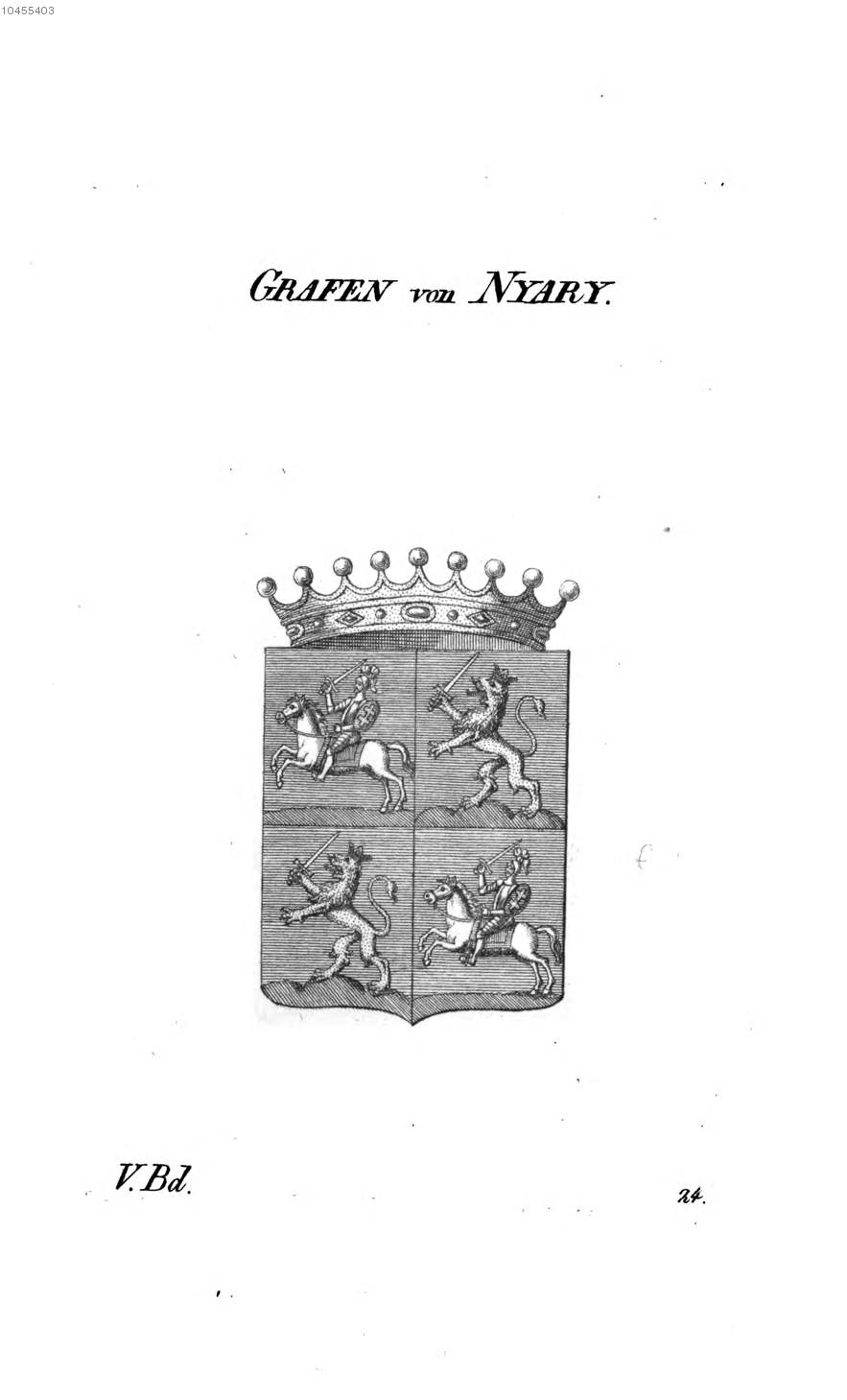 Wappen Nyary - Tyroff AT.jpg